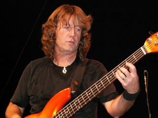 my own image